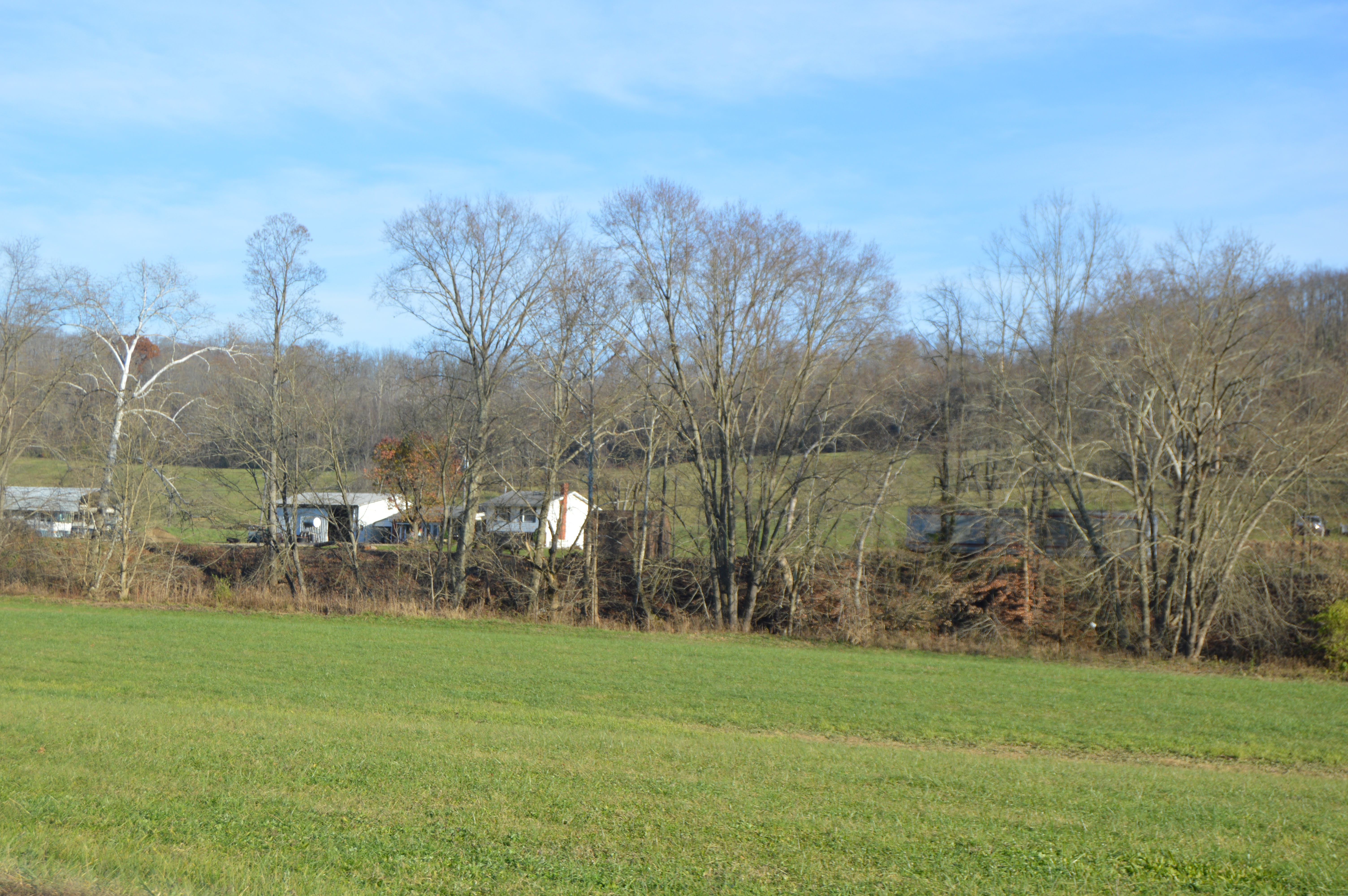 Fields, trees, and houses along Duck Creek south of Whipple in Fearing Township, Washington County, Ohio, United States.